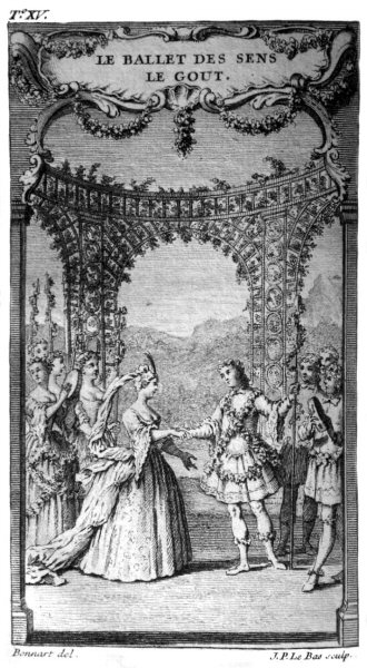 Le Ballet des sens (5ème entrée) music composed by Jean-Joseph Mouret (1682 - 1738). Medium: Etching on paper